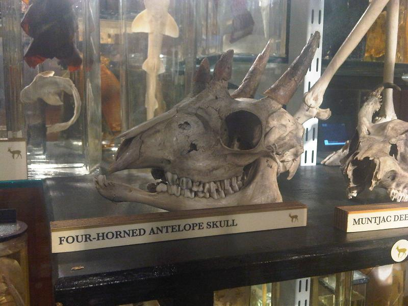 Four-horned Antelope (Tetracerus quadricornis) skull in Grant Museum of Zoology, London, England.